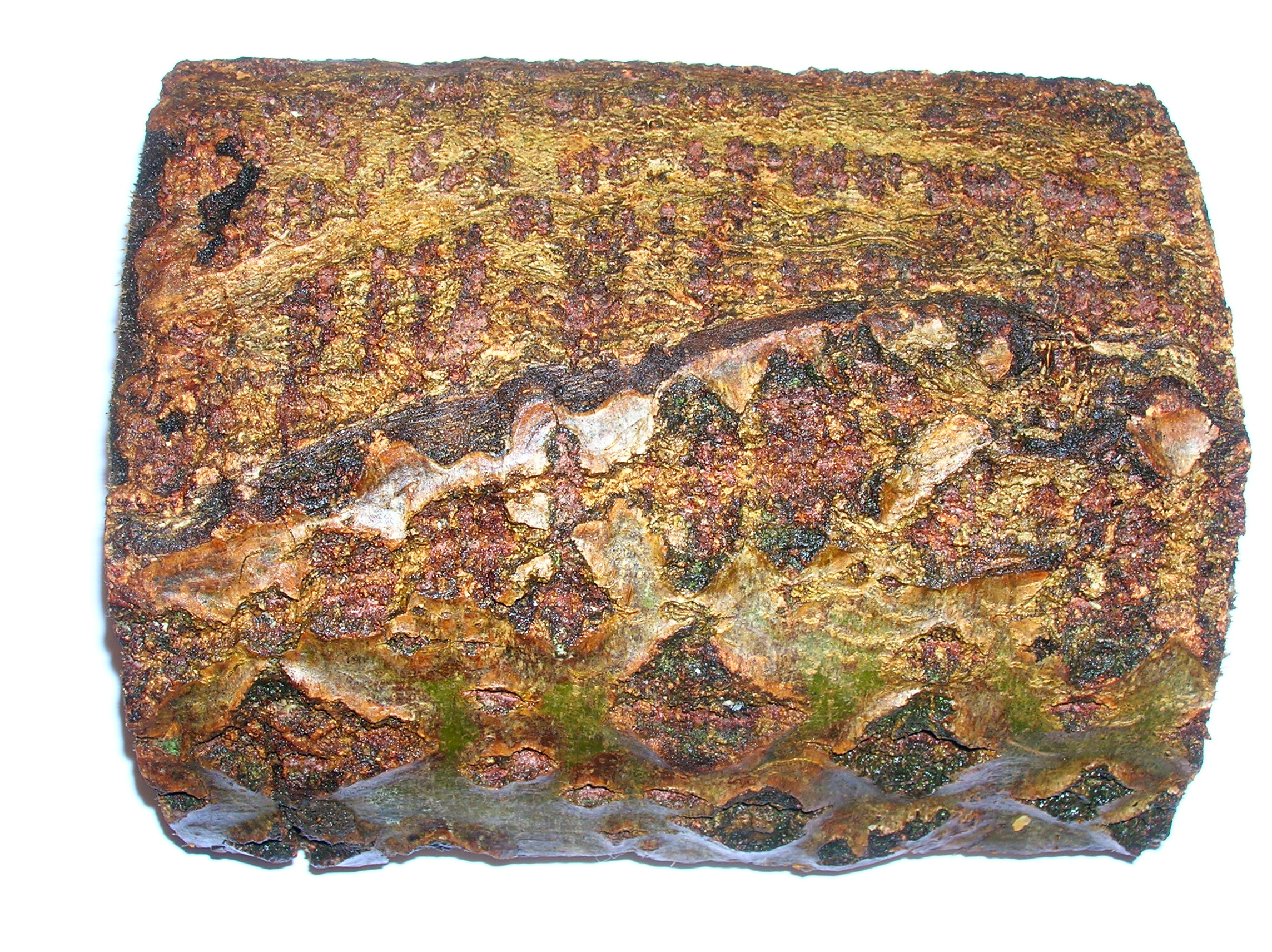 Alder bark with callus growth